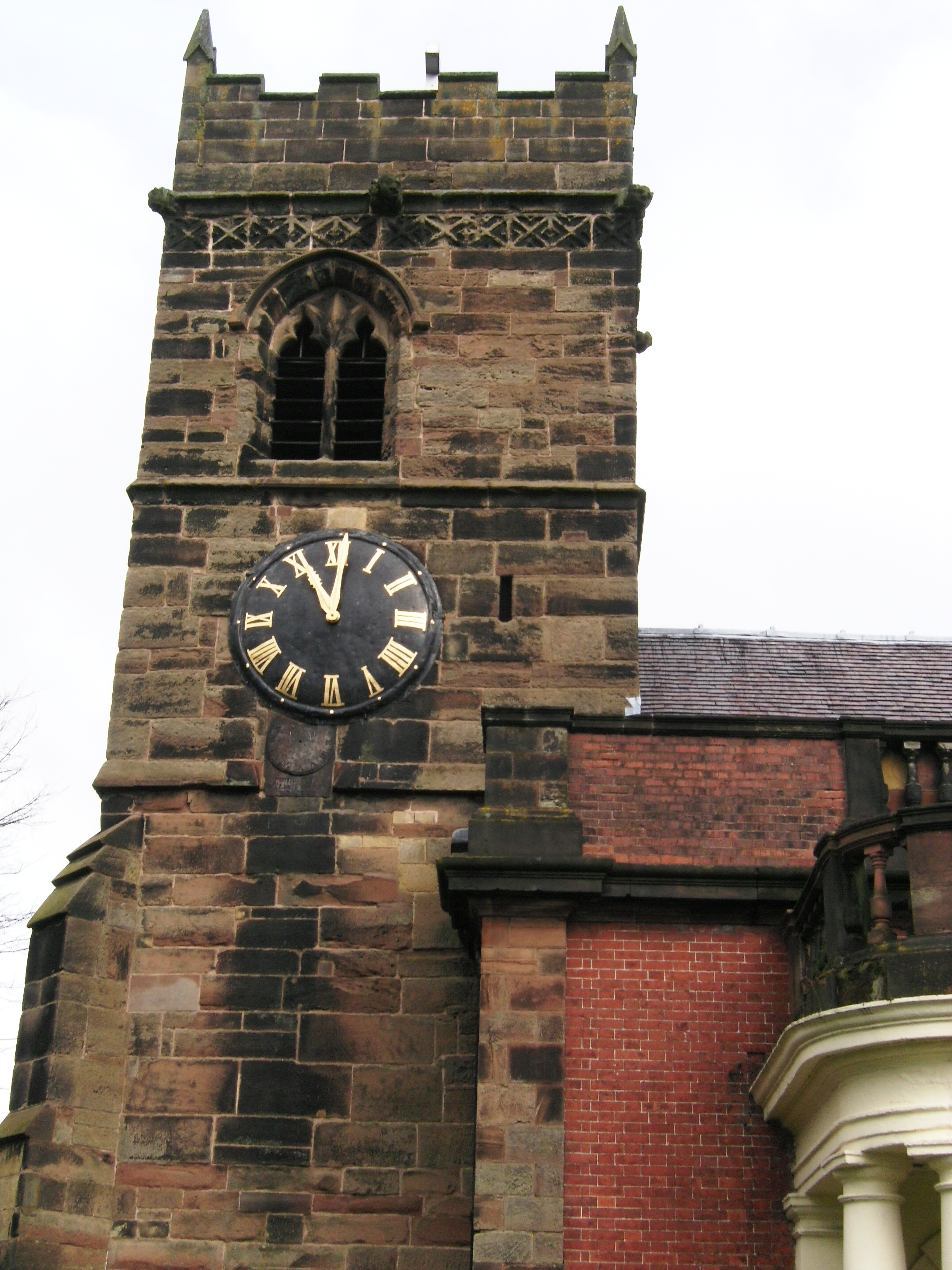 West tower of SS Mary and Luke parish church, Shareshill, Staffordshire, seen from the south